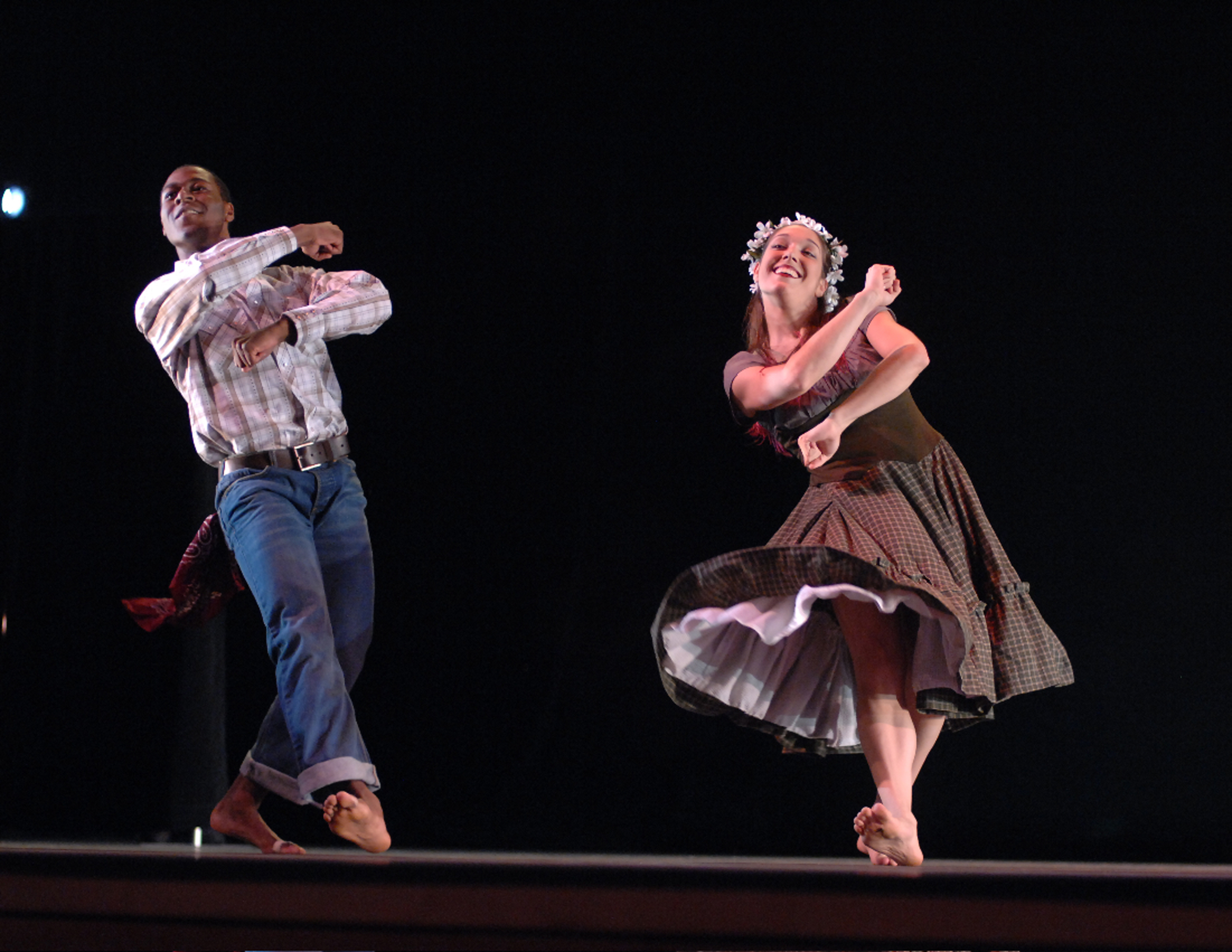 Jerome Johnson and Gisele Alvarez in Sophie Maslow's "Folksay"